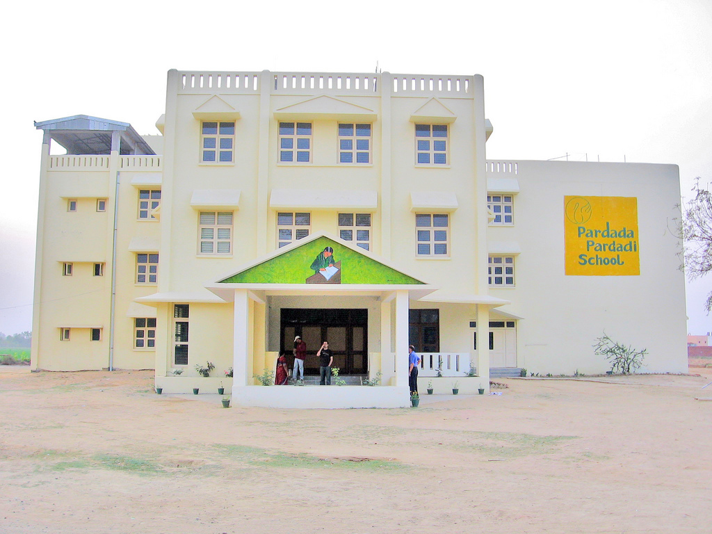 Pardada Pardadi school front.